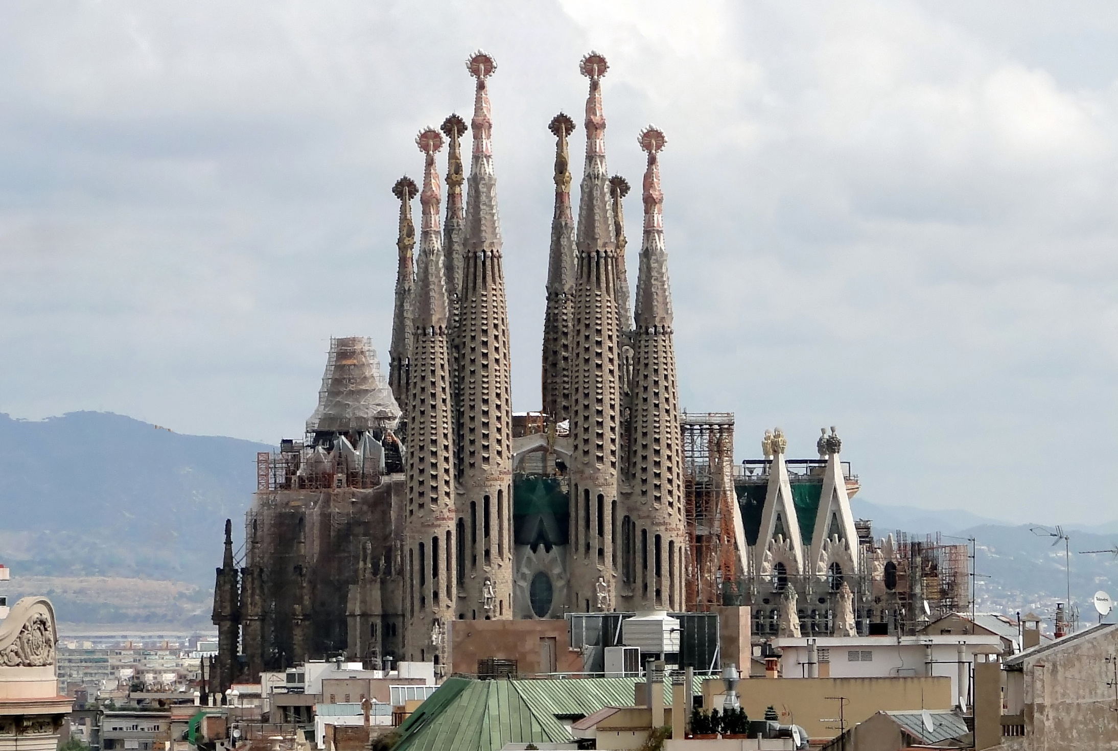 The Sagrada Familia viewed from Casa Milà, Barcelona, Spain